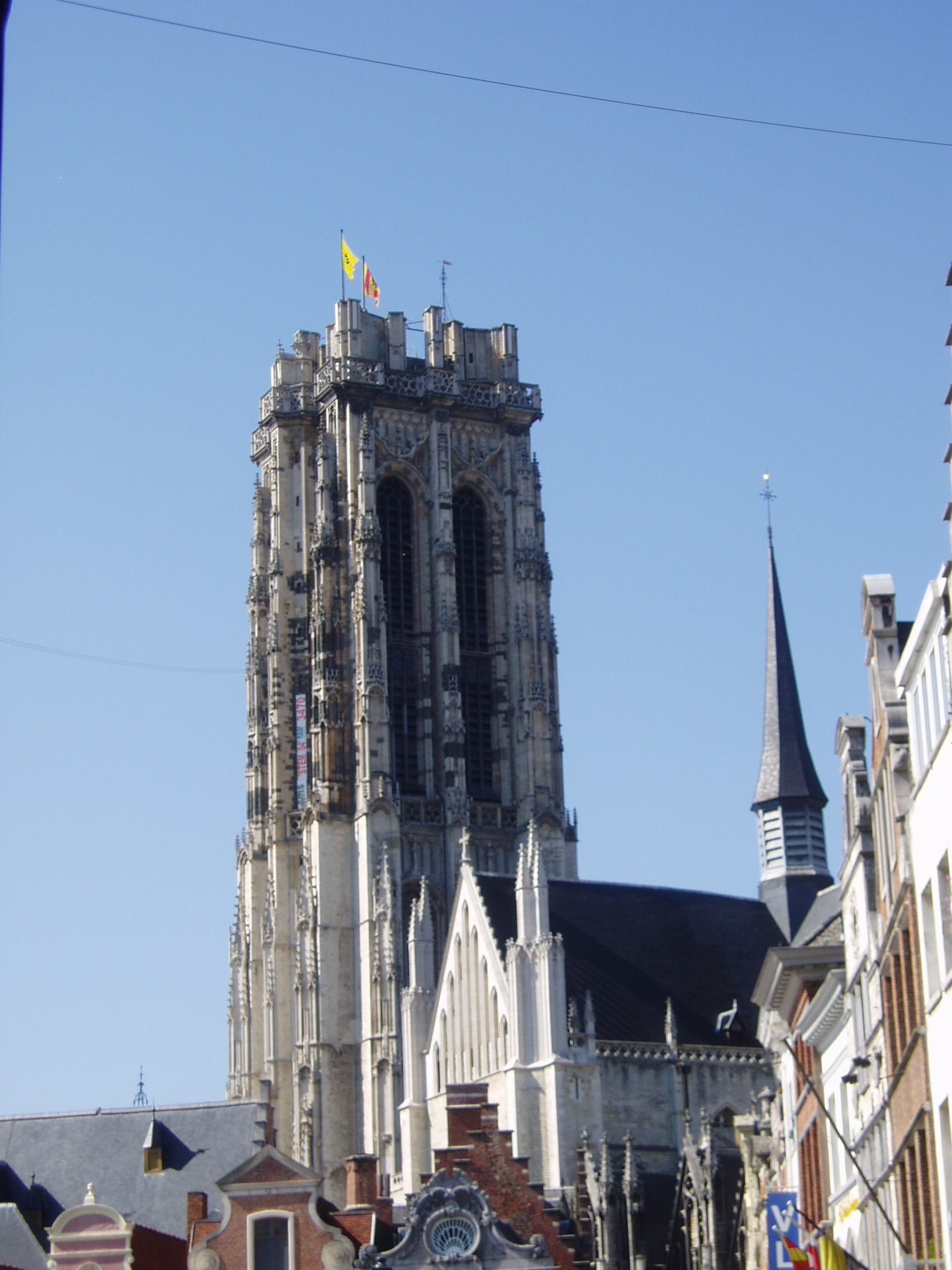 Tower of the cathedral Sint Rombouts in city Mechelen, Belgium.